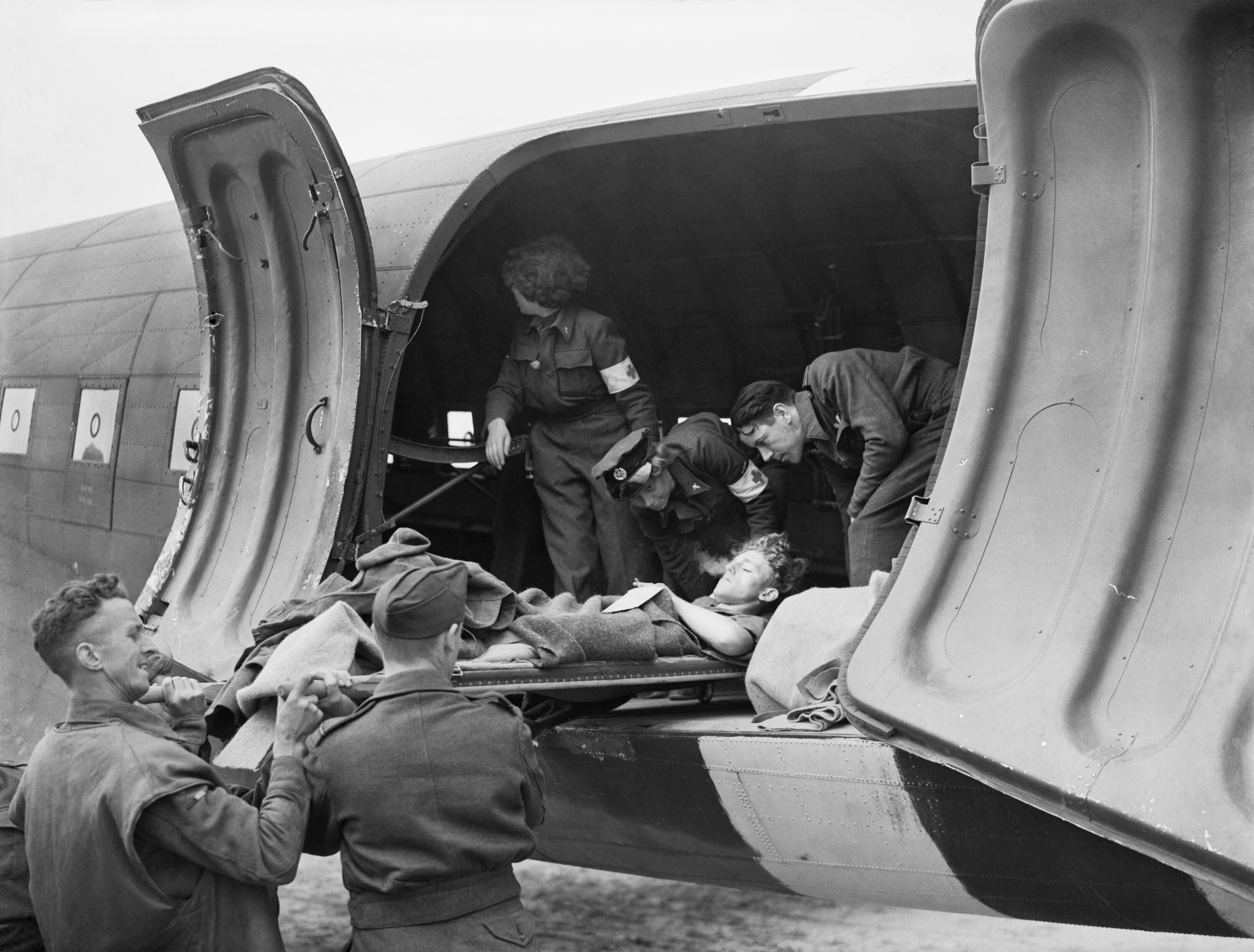 IWM caption : "Royal Air Force Transport Command, 1943-1945. Aircrew and WAAF nursing orderlies help to load a battle casualty on a stretcher into a Douglas Dakota Mark III of No. 233 Squadron RAF at B2/Bazenville, Normandy. The RAF's first 'casevac' flights to France were mounted by Dakotas of No. 46 Group on 13 June 1944, and the WAAF nursing orderlies pictured were the first women to be employed on these duties". See also : File:Royal Air Force Transport Command, 1943-1945. CL122.jpg